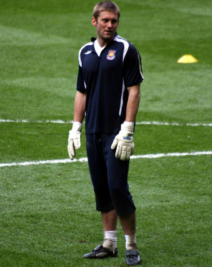 Rob Green